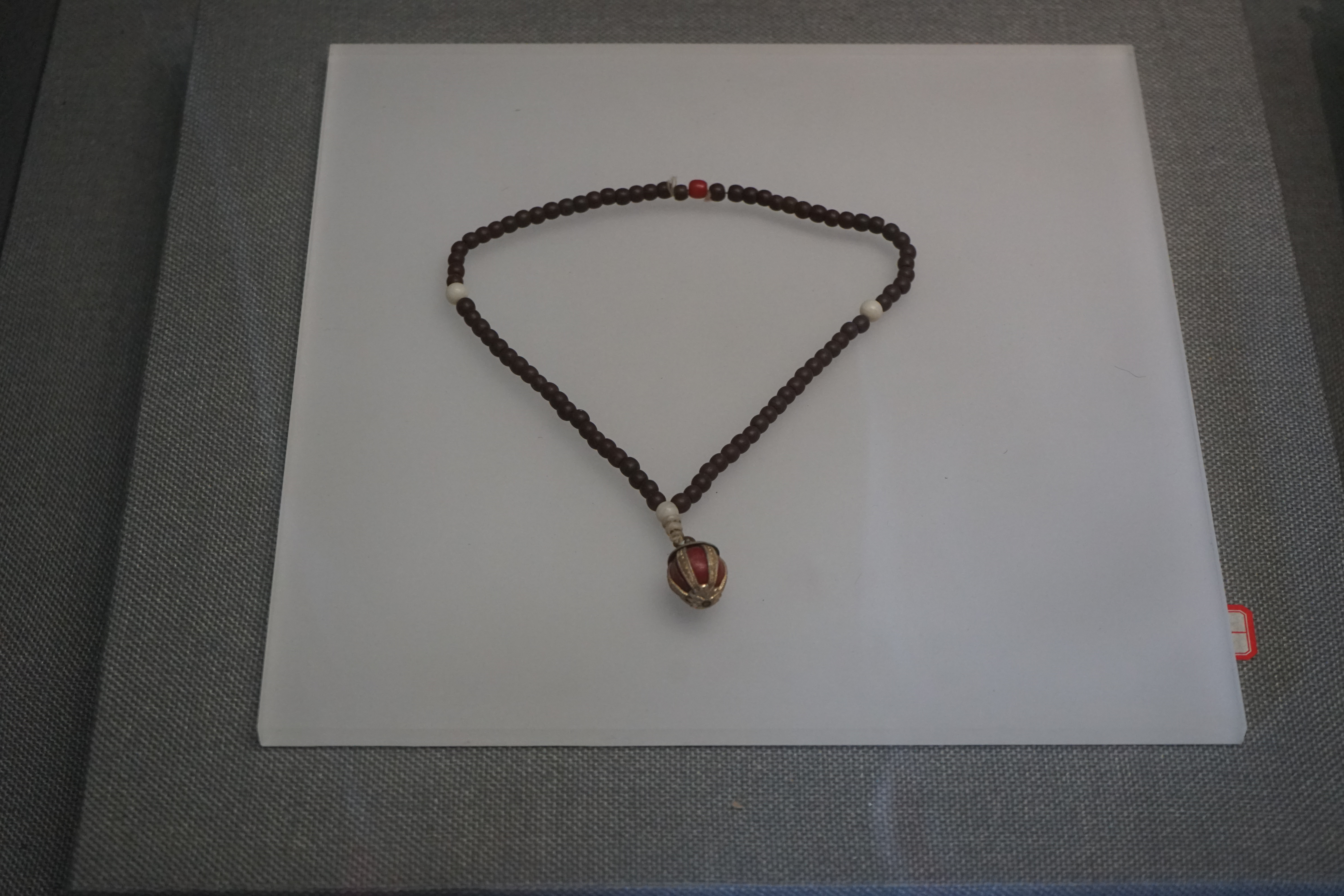 Buddhist prayer beads used by Sun Wu (1879 - 1939)